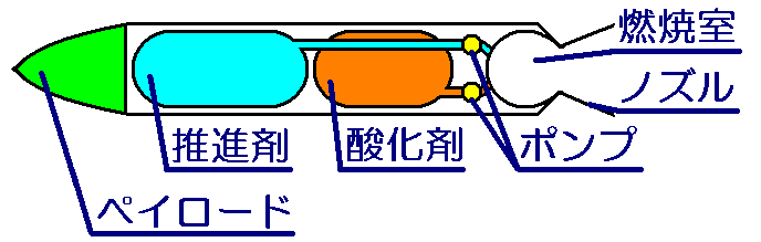 The sketch of liquid rocket written in Japanese.液体燃料ロケットの簡略図。